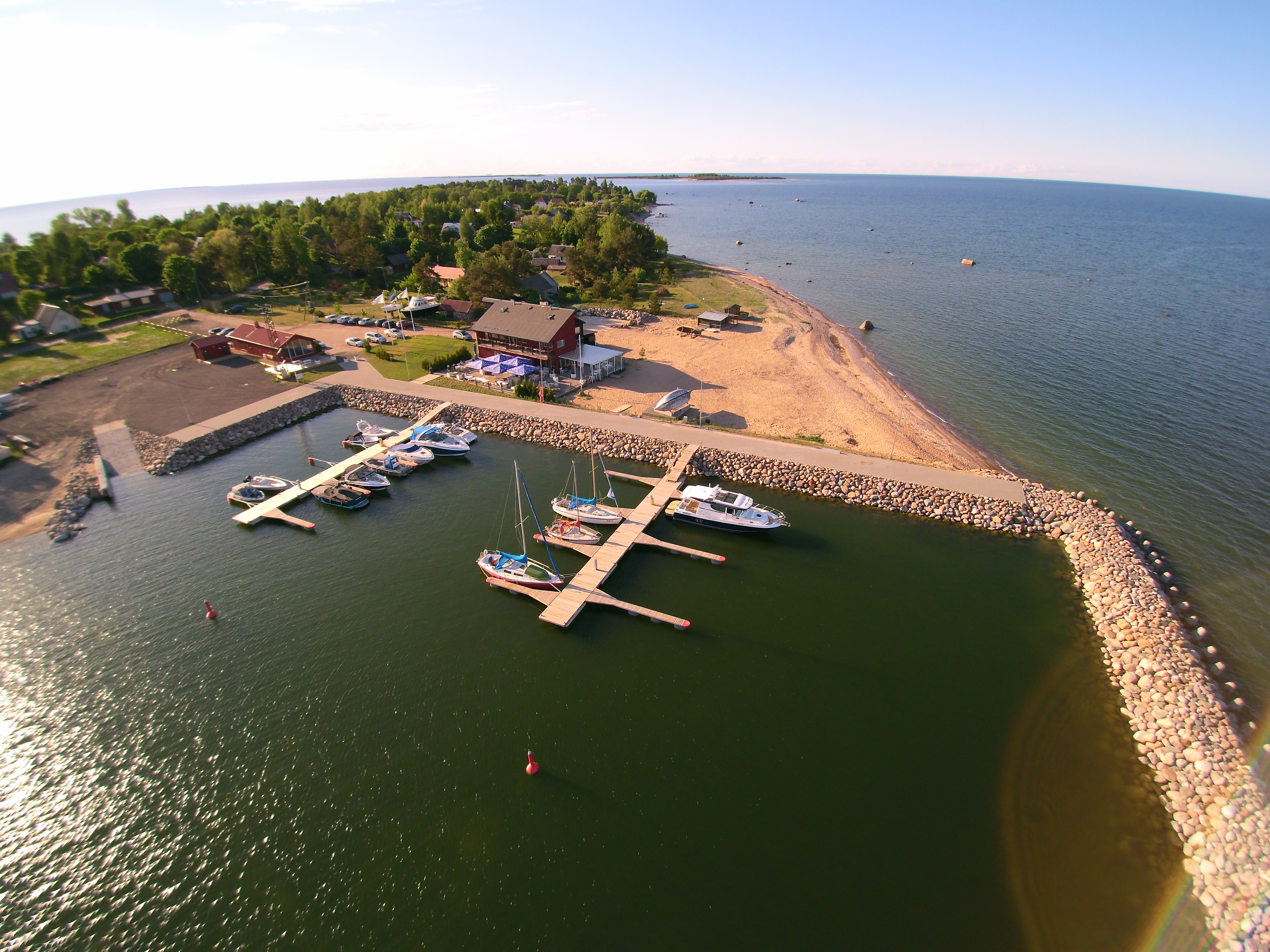 Kaberneeme Marina